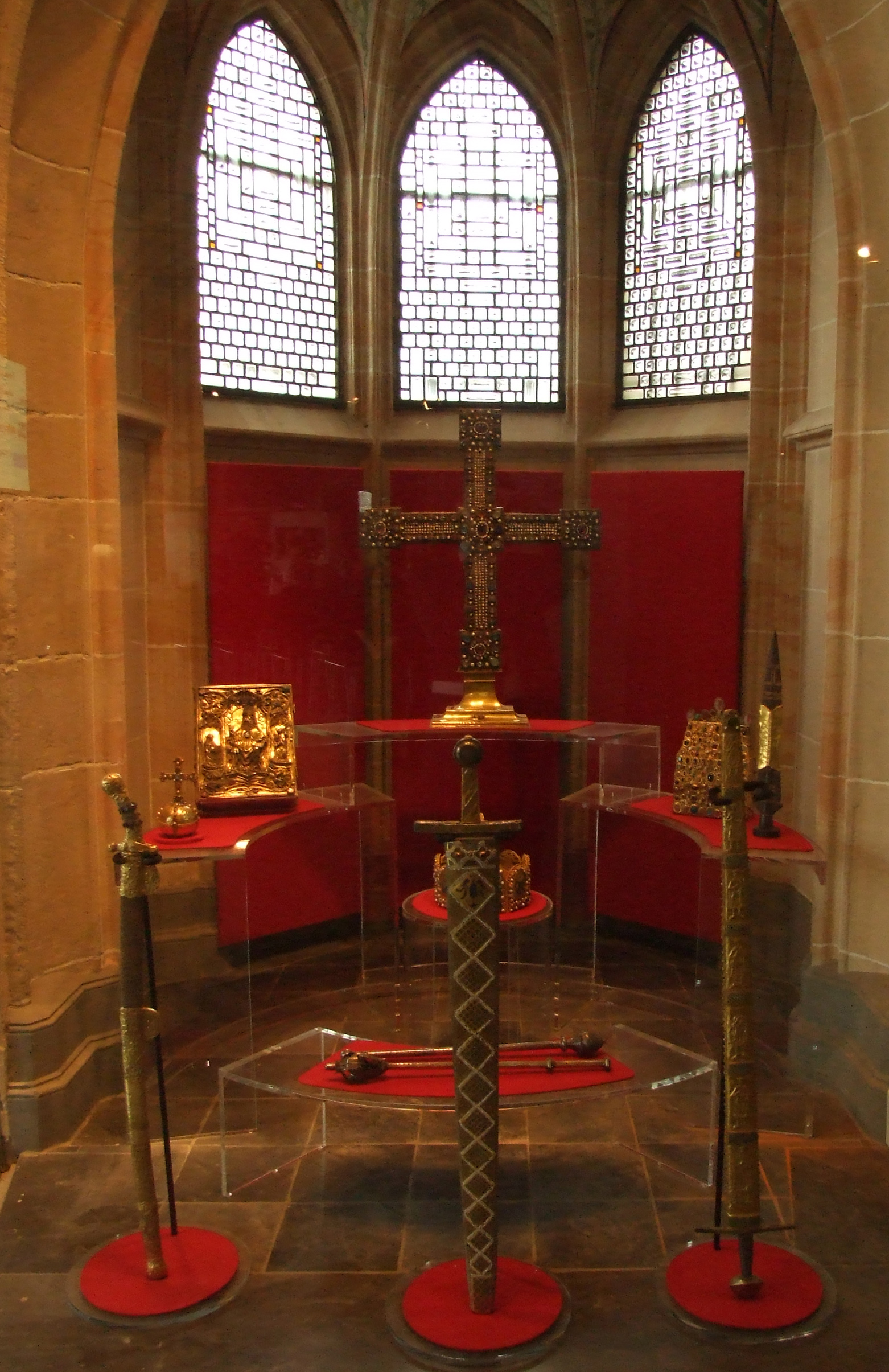 Imperial crown-jewels in the town hall in Aachen